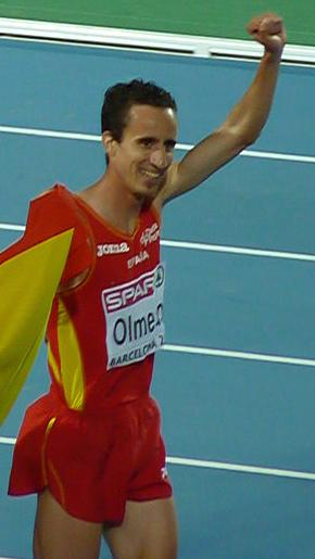 Spanish athlete, Manuel Olmedo